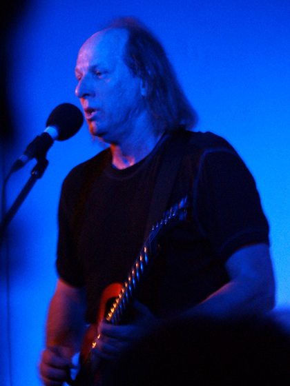 Adrian Belew The Corner Hotel, Melbourne, April 2006